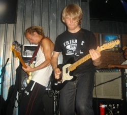 Arribas Bar Urbano concert Jul 7, 2006